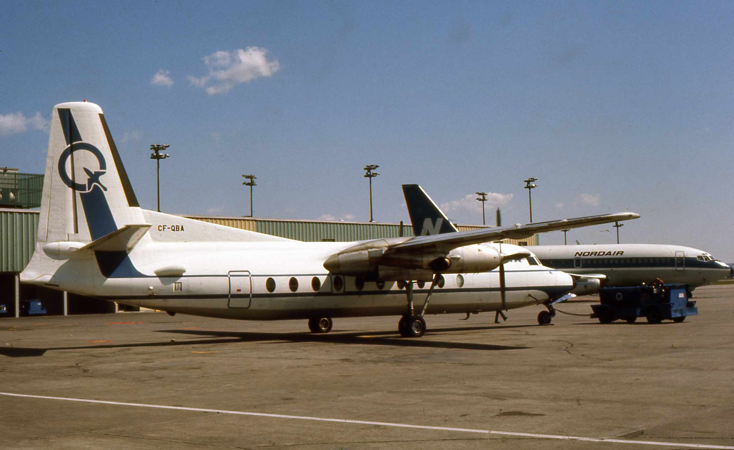 Quebecair one of the four Fokker F27 Friendship c/n 11 delivered to Quebecair on September 17, 1958, still used by the airline in 1973.